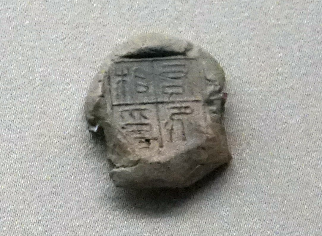 “You Chengxiang” seal。一级文物